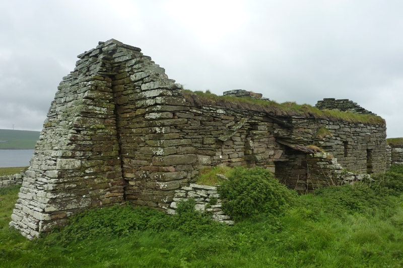 Eynhallow Church, Eynhallow, Orkney, Scotland - view from northeast.